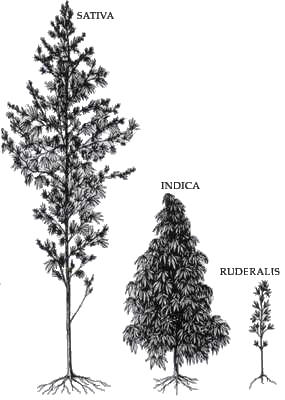 Main types of cannabis